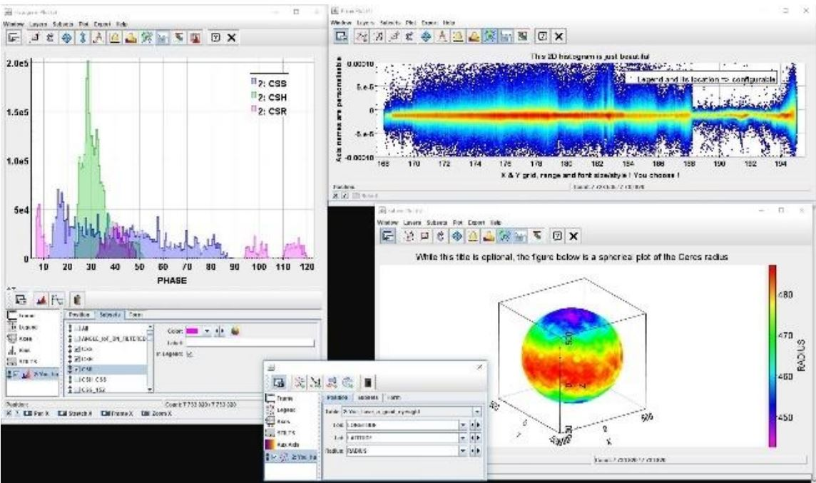 TOPCAT with three independent plot windows displayed